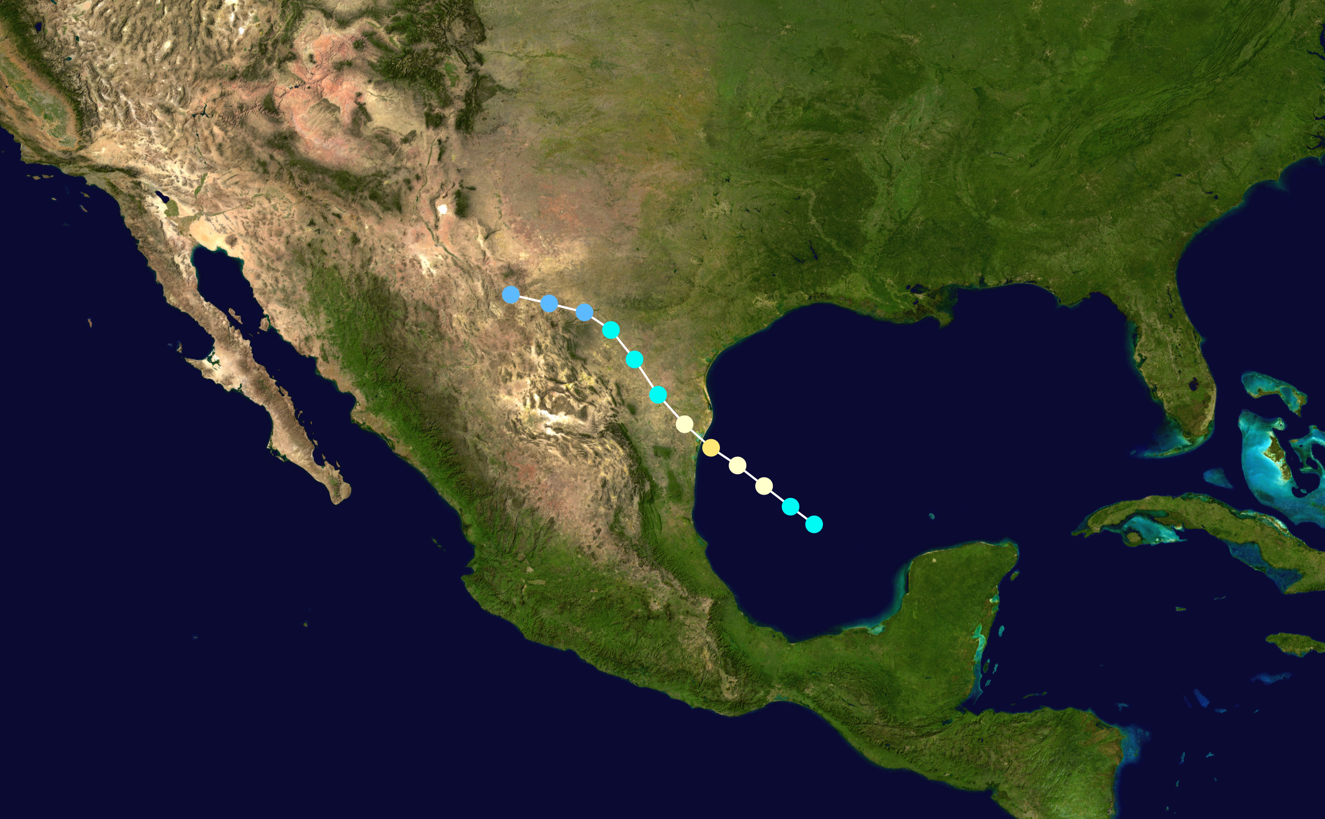 Track map of Hurricane Alice of the 1954 Atlantic hurricane season. The points show the location of the storm at 6-hour intervals. The colour represents the storm's maximum sustained wind speeds as classified in the Saffir–Simpson hurricane wind scale (see below), and the shape of the data points represent the nature of the storm, according to the legend below. Saffir–Simpson hurricane wind scale Tropical depression≤38 mph≤62 km/h Category 3111–129 mph178–208 km/h Tropical storm39–73 mph63–118 km/h Category 4130–156 mph209–251 km/h Category 174–95 mph119–153 km/h Category 5≥157 mph≥252 km/h Category 296–110 mph154–177 km/h Unknown Storm typeTropical cycloneSubtropical cycloneExtratropical cyclone / Remnant low / Tropical disturbance